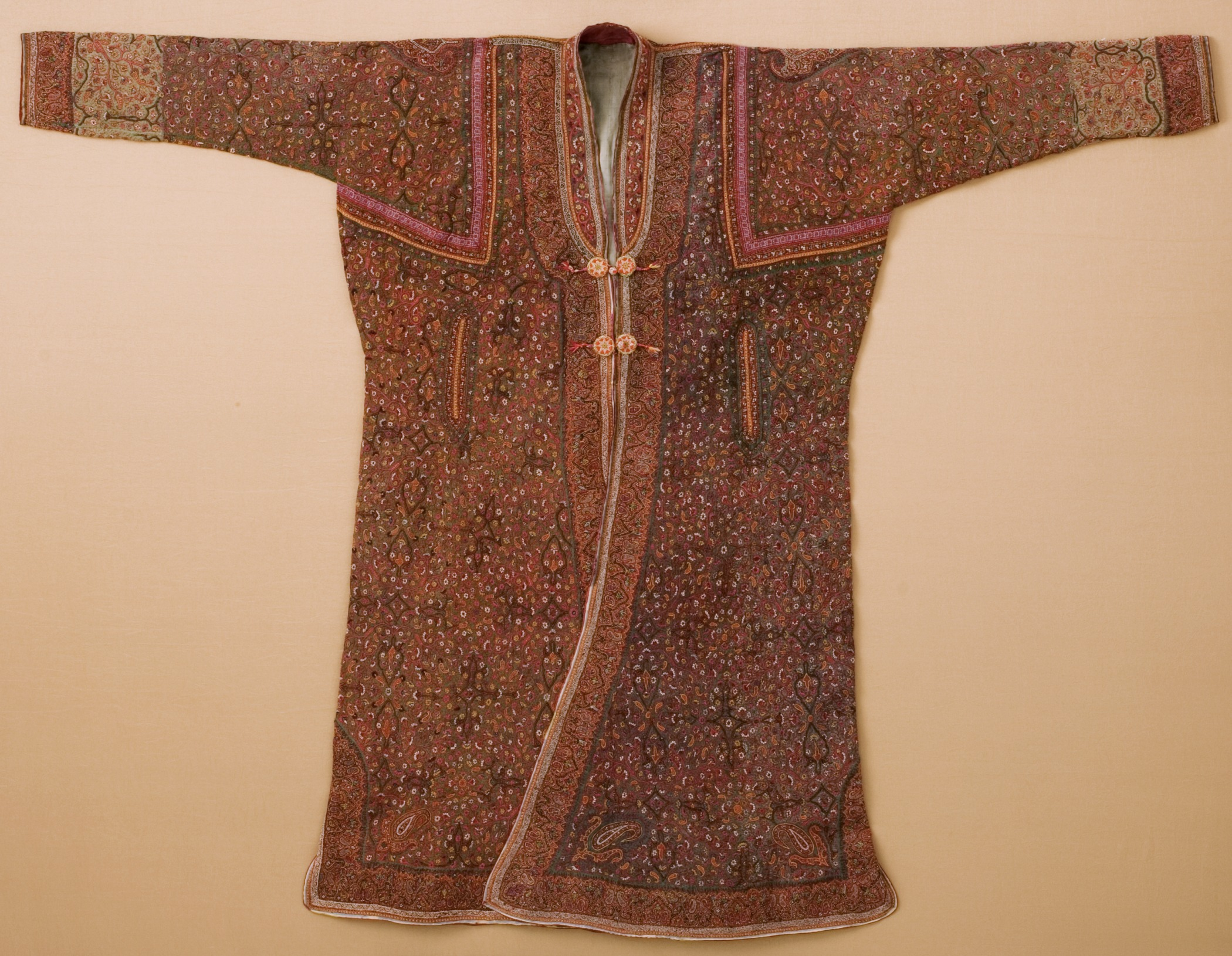 India, Kashmir, 19th century Costumes; principal attire (entire body) Wool embroidery on twill weave wool, silk lining Width: 62 3/4 x . (159.385 x ); Height: 49 1/2 x . (125.73 x ) Gift of Mr. and Mrs. John Jewett Garland (M.63.33.1) Costume and Textiles